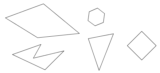 This picture shows five examples of polygons. Four are convex, one is concave, and two are regular. All differ in the number of edges and vertices.